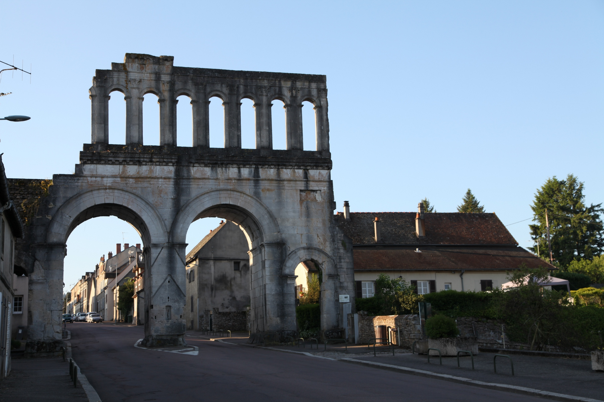 Arroux Gate Autun Burgundy (Roman Empire) .